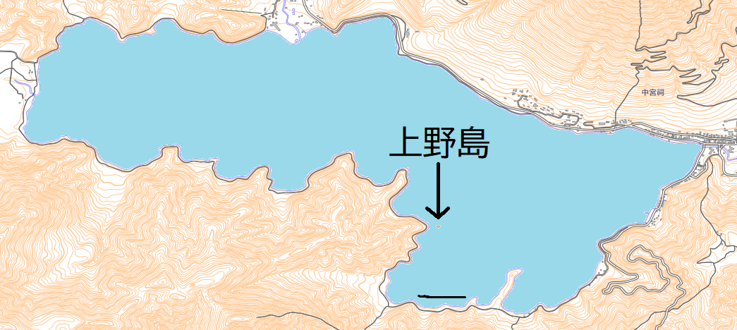 Map of Kozuke-jima in Lake Chuzenji,Japan